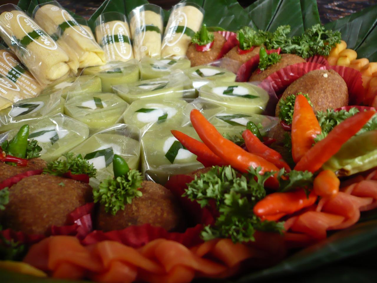 Jajan Pasar, assorted snacks